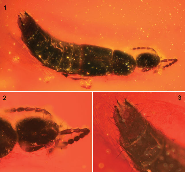 Figures 1–3. Photomicrographs of holotype female of Diochus electrus Chatzimanolis & Engel, sp. n. (B-244). 1 Dorsal view 2 Details of head 3 Details of abdominal apex.